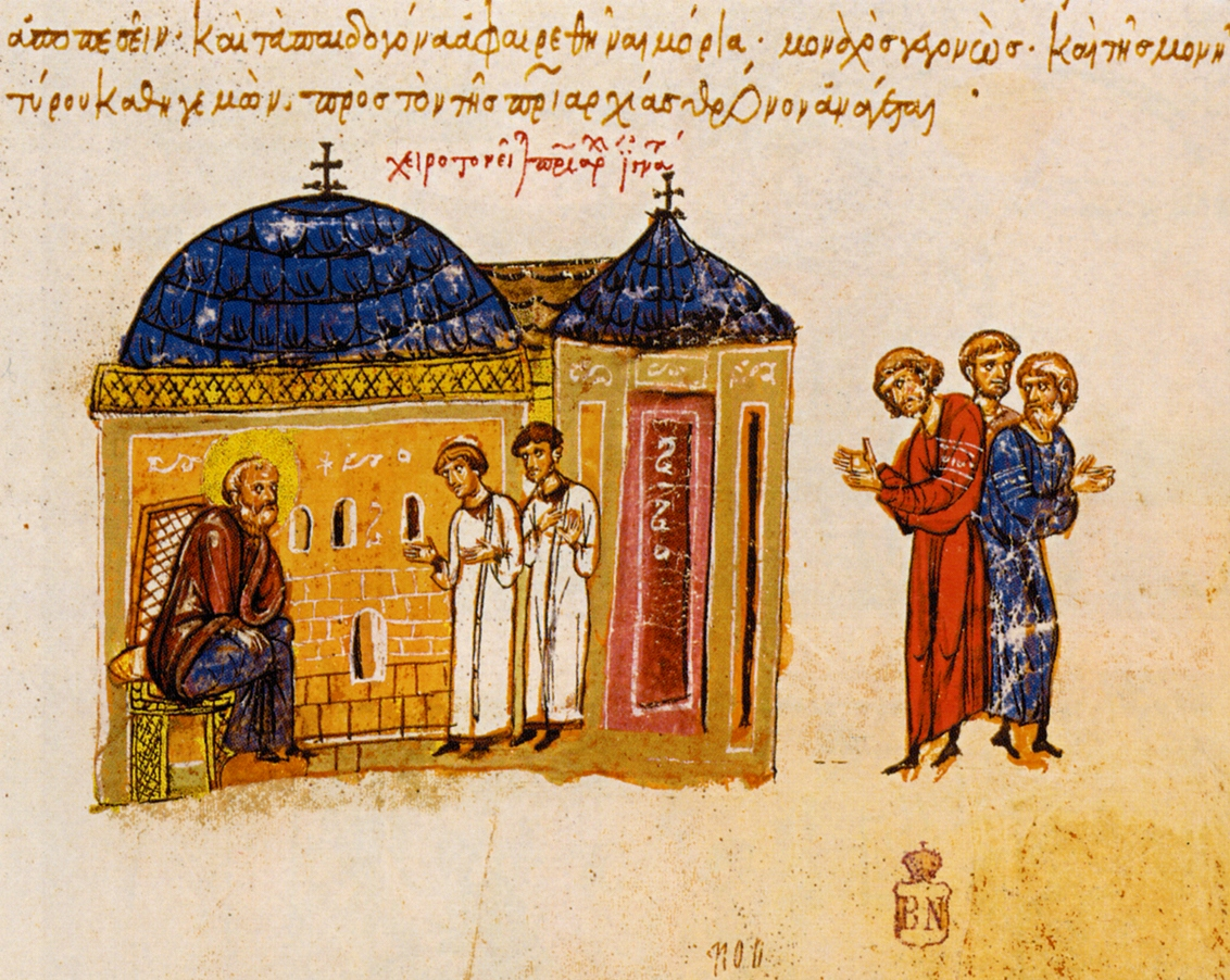 Skyllitzes Matritensis, fol. 76r, detail. Miniature: The appointment of the Patriarch Ignatios. Text from the Chronicle of John Skylitzes: "... When the thrice-blessed Methodius depared the life after occupying the Constantinopolitan throne for four breif years, Ignatios was enthroned as patriarch. He was the grandson of the emperor Nikephoros [I] on his mother's side and the son of the emperor Michael [I] who fell from power. After he fell from power he was castrated and thus excluded from the succession; he became a monk, then hegoumenos of the monastery of Satyros. ..." (Translated by John Wortley, in: John Skylitzes: A Synopsis of Byzantine History, 811-1057: Translation and Notes, p. 106) References: Ioannis Scylitzae Synopsis Historiarum. Editio Princeps. Rec. Ioannes Thurn, p. 106, in: Corpus Fontium Historiae Byzantinae 5 Series Berolinensis, 1973 Tsamakda V.: The illustrated chronicle of Ioannes Skylitzes in Madrid, p. 118 Grabar A., Manoussacas M.: L'illustration du manuscript de Skylitzes de Madrid, p. 54